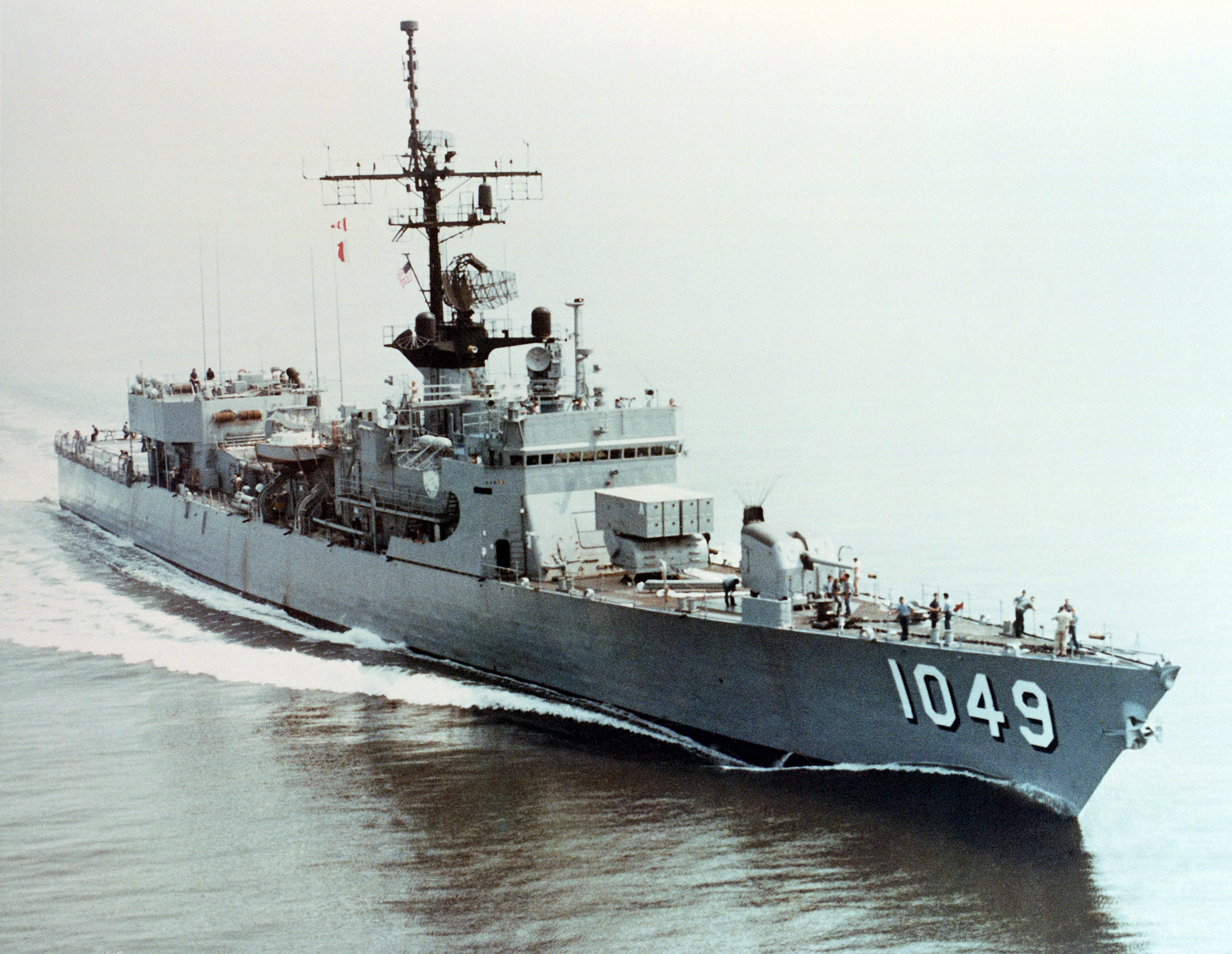 The U.S. Navy Garcia-class frigate USS Koelsch (FF-1049) underway in 1985.